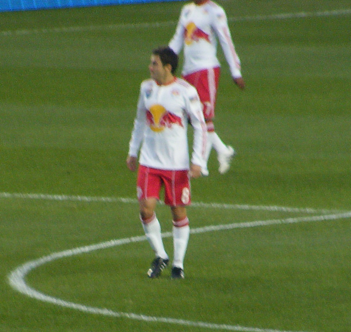 Sinisa Ubiparapovic in action for Red Bulls 3/27/10